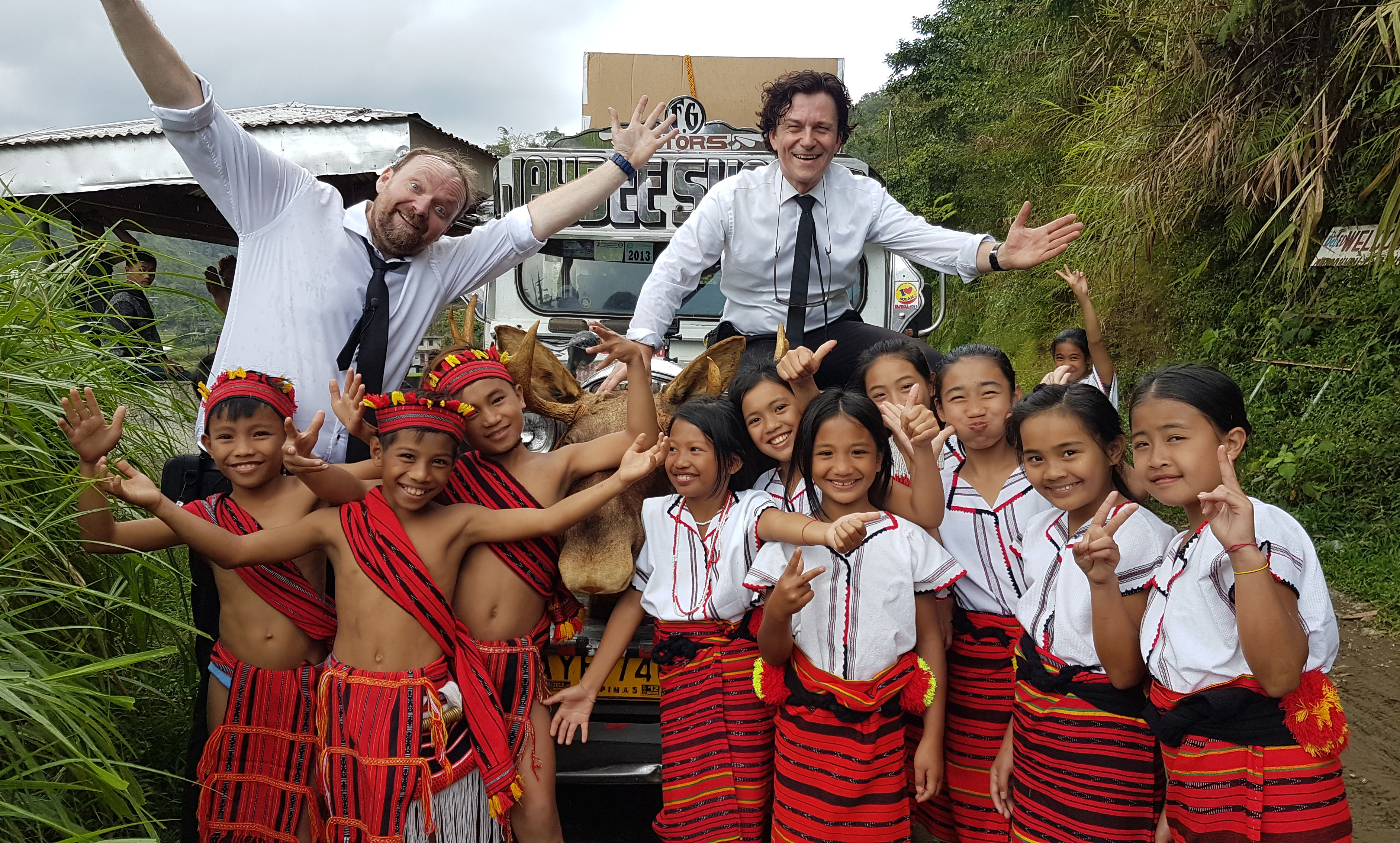 Nils & Ronny in the Philippines, 2017